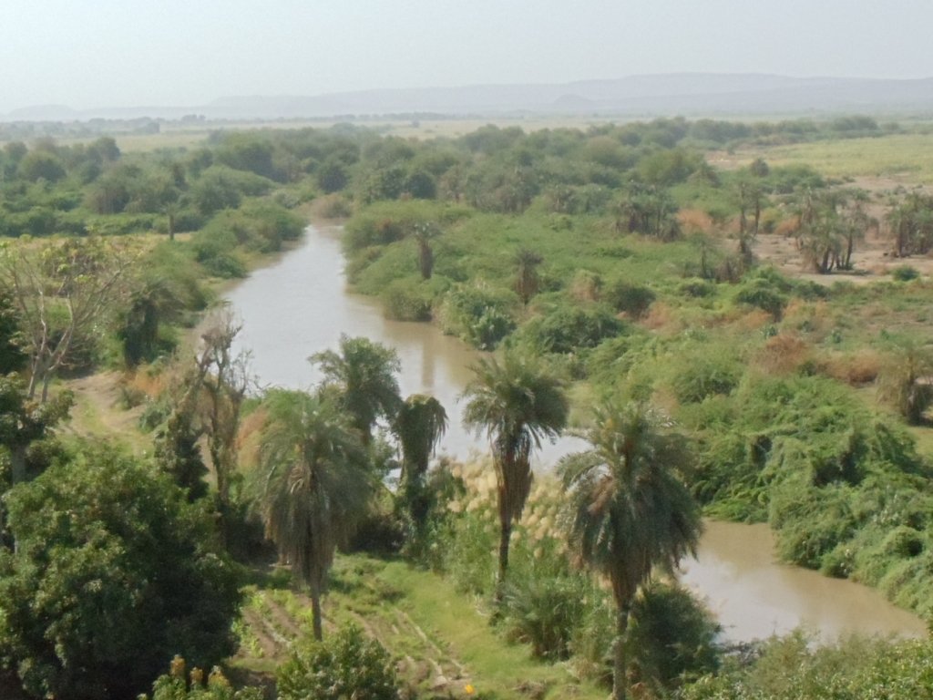 the Awash River Valley is a desert oasis and irrigates a lot of farmland in the midst of a harsh desert climate; next to Asaita